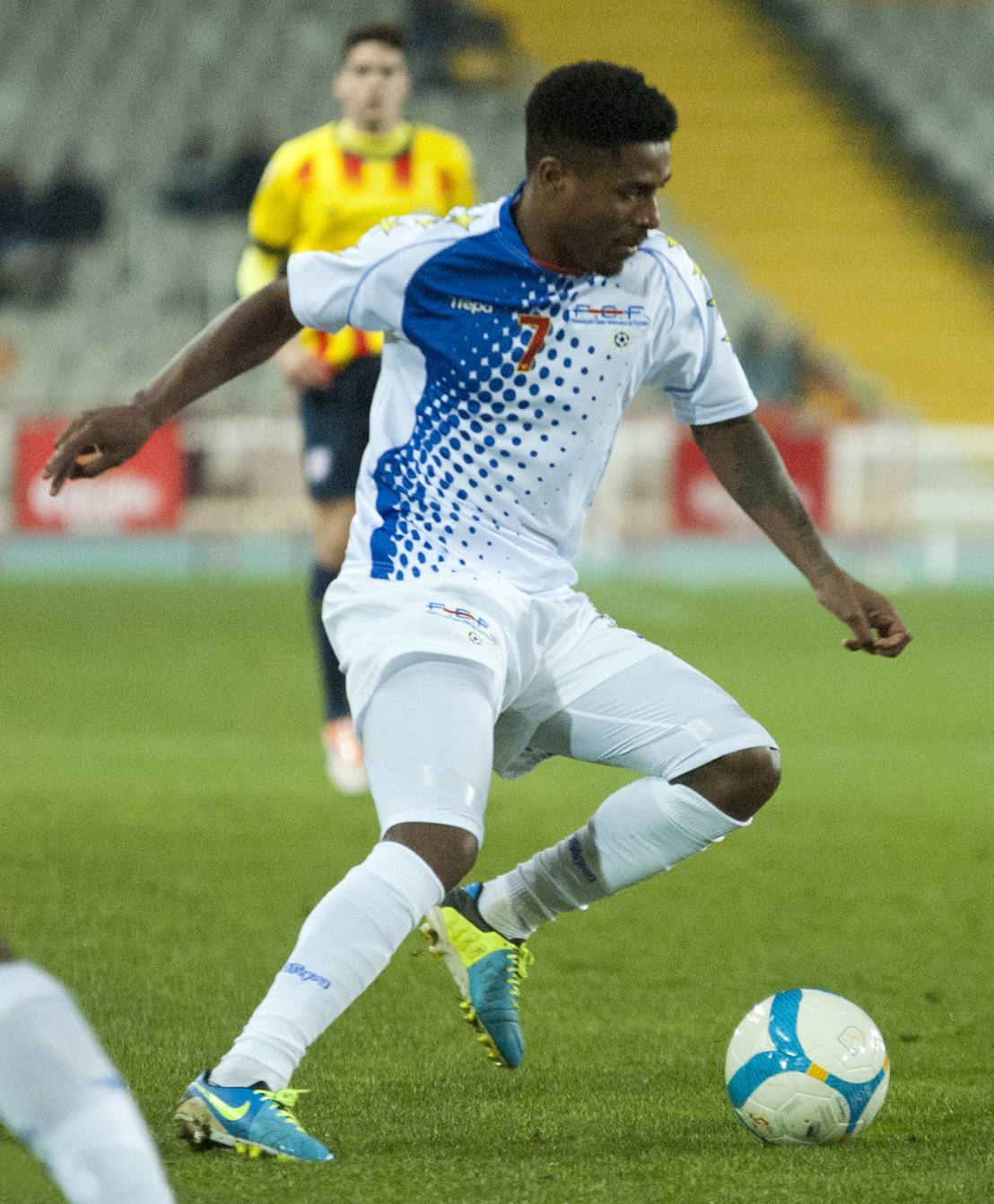 Cape Verdean international football player Luís Carlos Almada Soares 'Platini' during friendly match Catalonia vs. Cape Verde